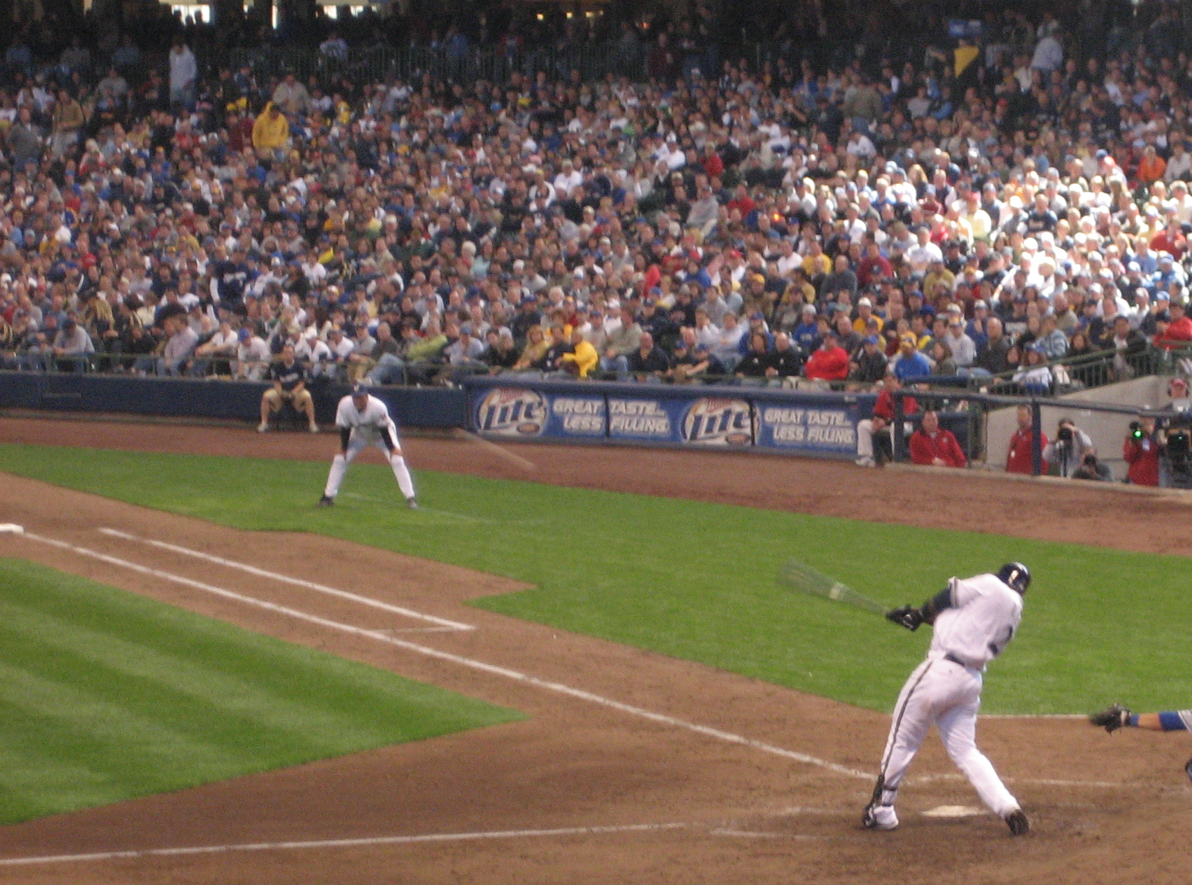 Billy Hall hits a home run to give the Brewers a 7-1 lead on opening day on April 2, 2007. Photo taken with the Canon Powershot SD600.